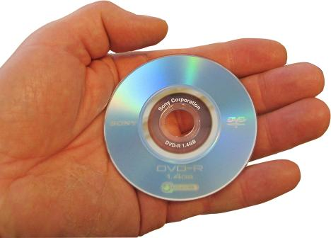 dcdcdc